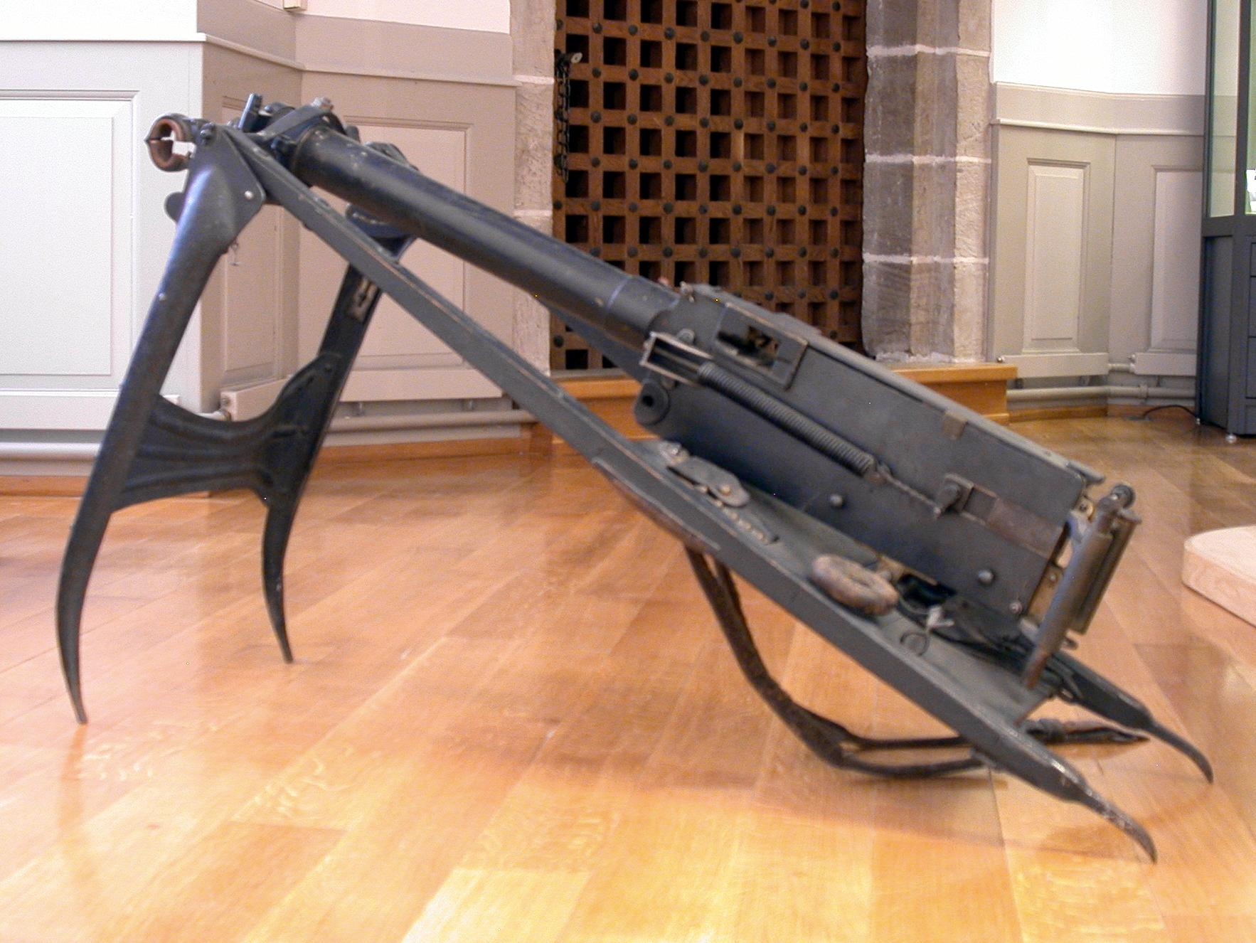 Swiss cal 7.5 mm Maxim Machine gun Model 1894